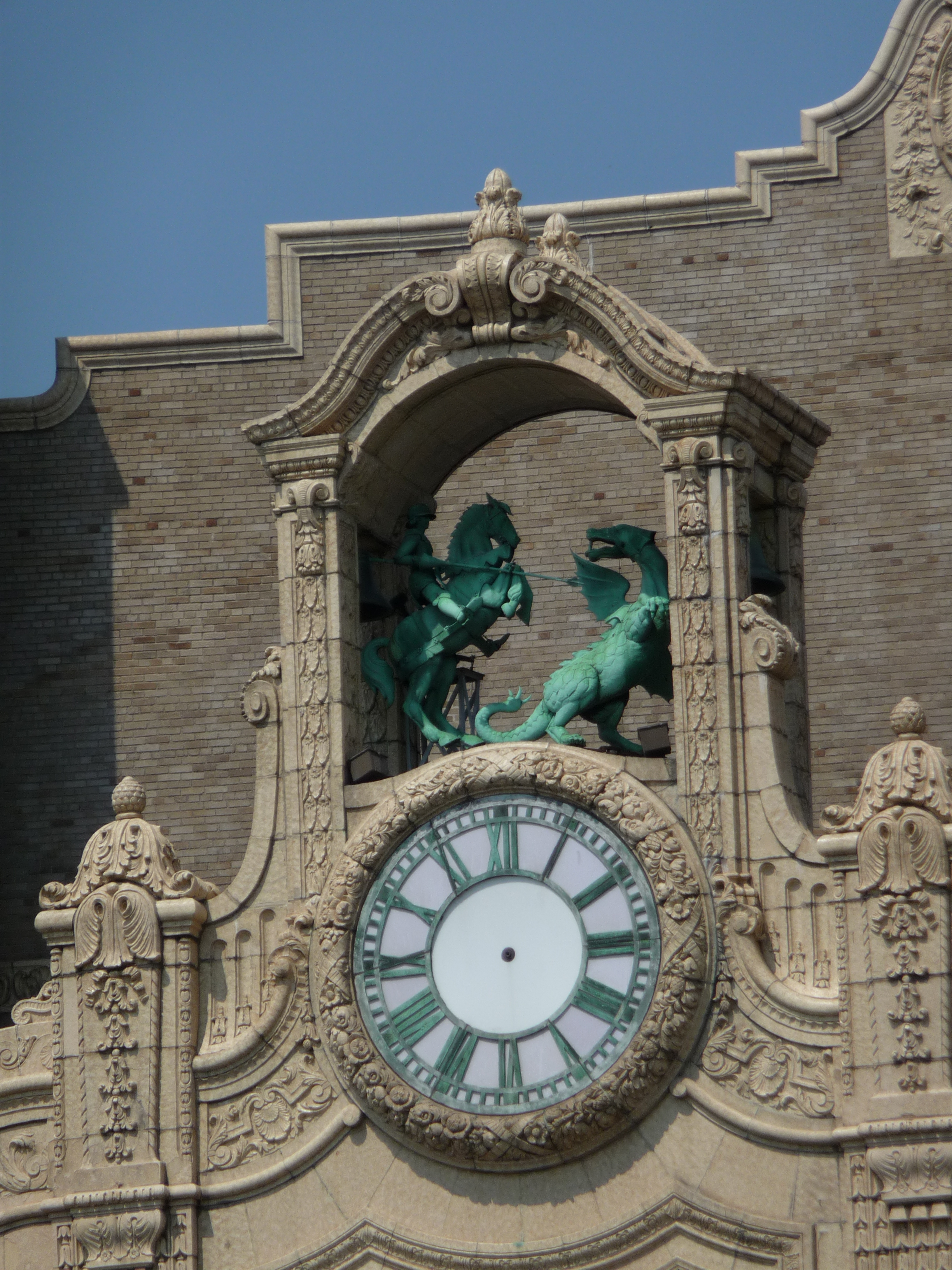 Detail of Seth Thomas-designed animated clock on the Loew's Jersey theater, Jersey City, New Jersey, USA